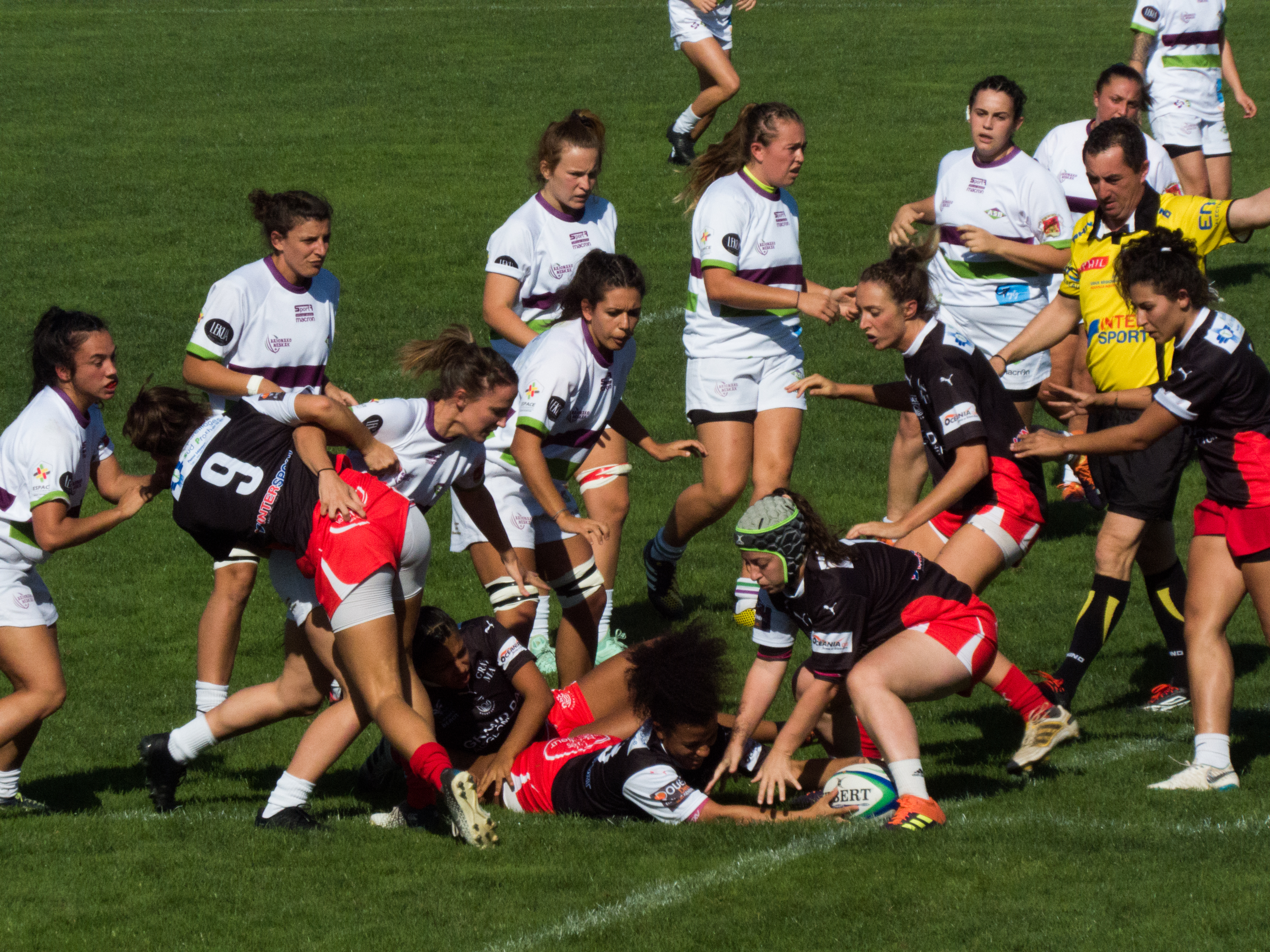 Q65123335 — 17 November 2019, stade Colette-Besson. Match between: Q3360155 — Association sportive bayonnaise